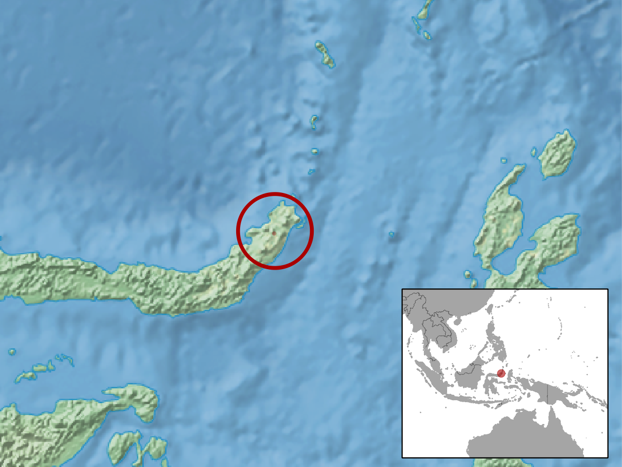 geographic distribution of Taeromys taerae